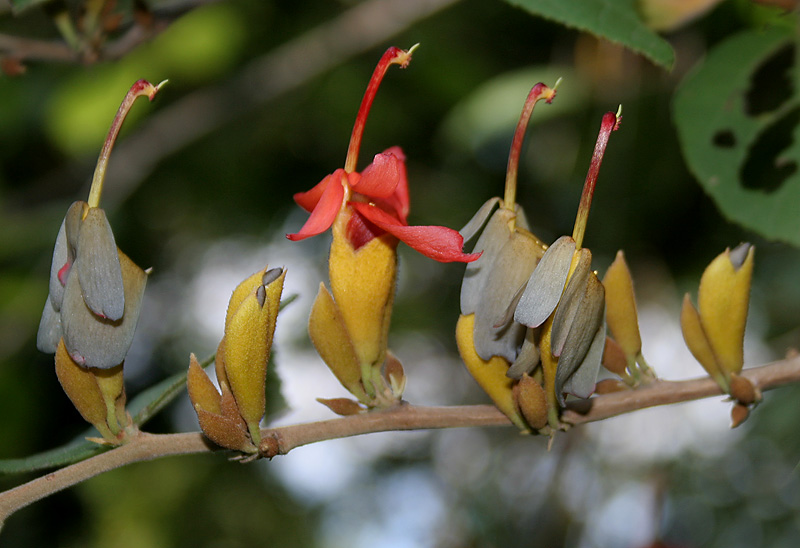 Helicteres isora - East Indian screw tree, nut-leaved screw tree • Bengali: antamora • Hindi: bhendu, damni, jonka phal, kapasi, मरोड़ फल maror phal • Kannada: yedamuri • Malayalam: isora-murri, valampiri • Marathi: अटी ati, धामणी dhamani, kapaisi, केवण kewan, मुरडशेंग muradsheng • Oriya: murmuria • Sanskrit: अवर्तनि avartani, मृग शृङ्ग mrigashringa • Sindhi: vurkatee • Tamil: வலம்புரி valampuri • Telugu: నులితడ nulitada • Urdu: marorphali - in Narsapur, Medak district, Andhra Pradesh, India.